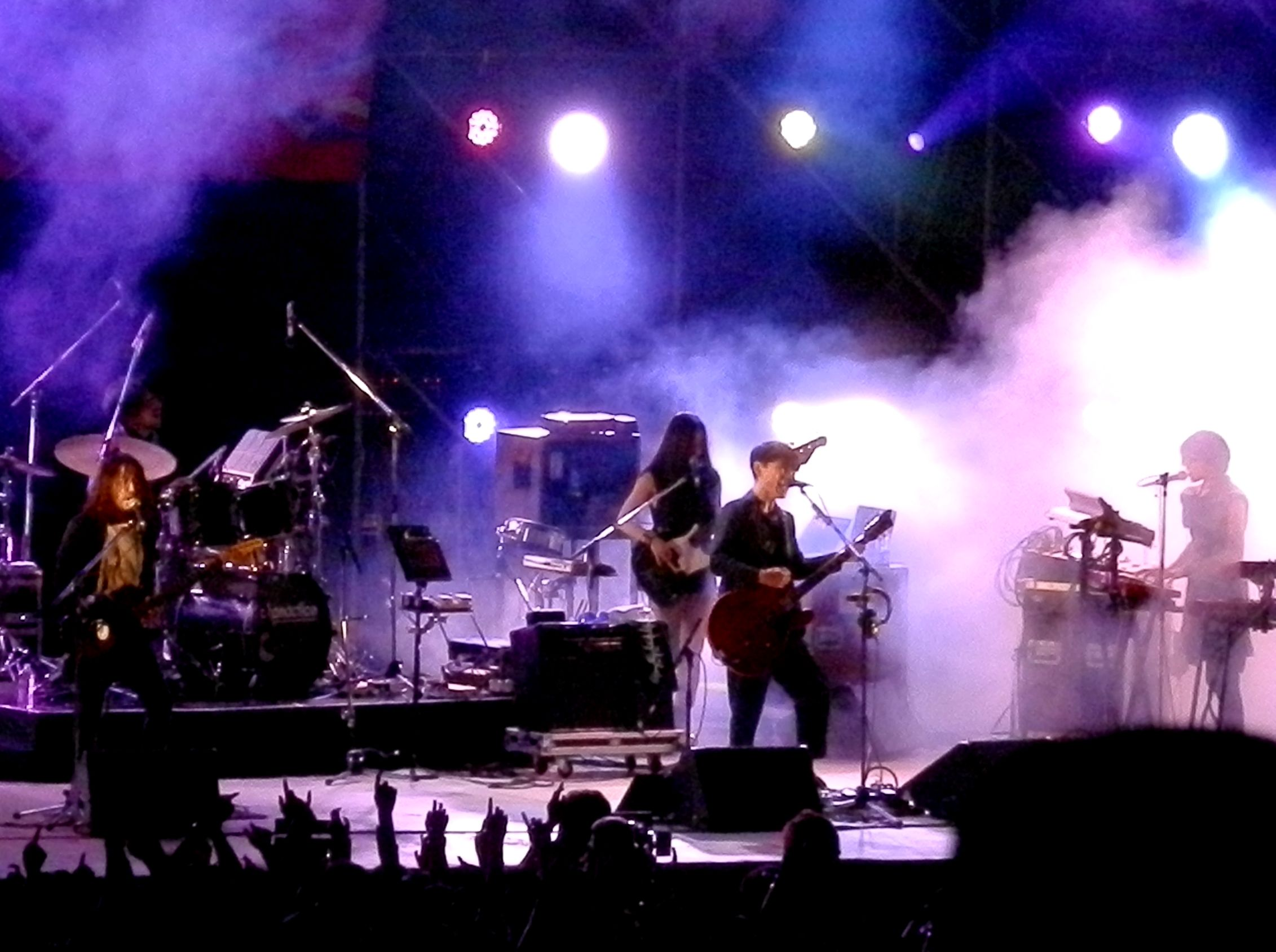 Sakanaction at Join Alive rock festival in Iwamizawa, Hokkaido (June 21, 2013)